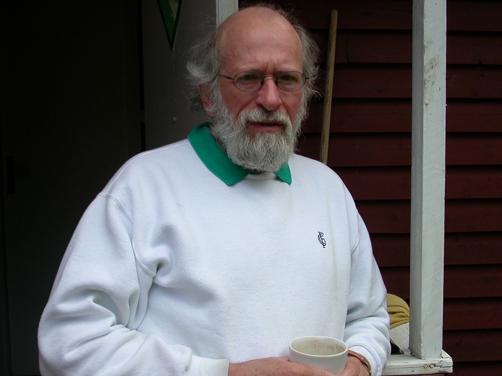 Photo of novelist Alan Lelchuk